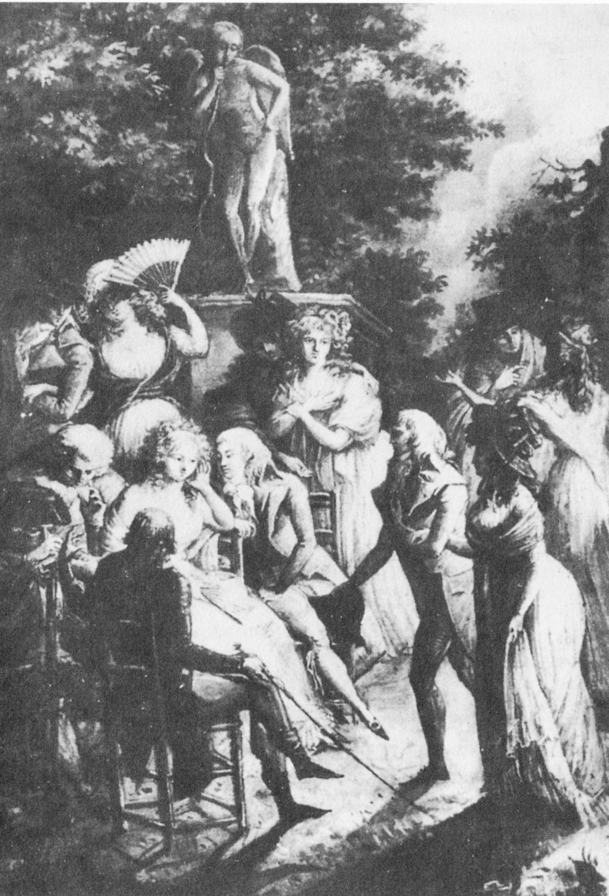 Madame de Staël addressing her circle at Coppet.